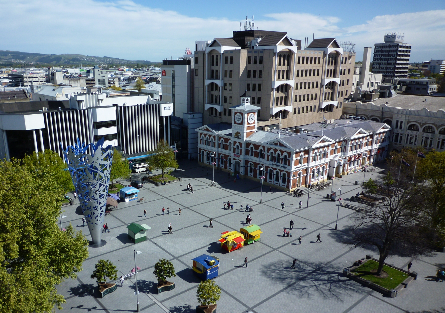 View of Cathedral Square, Christchurch, New Zealand, taken from the top of ChristChurch Cathedral's spire.